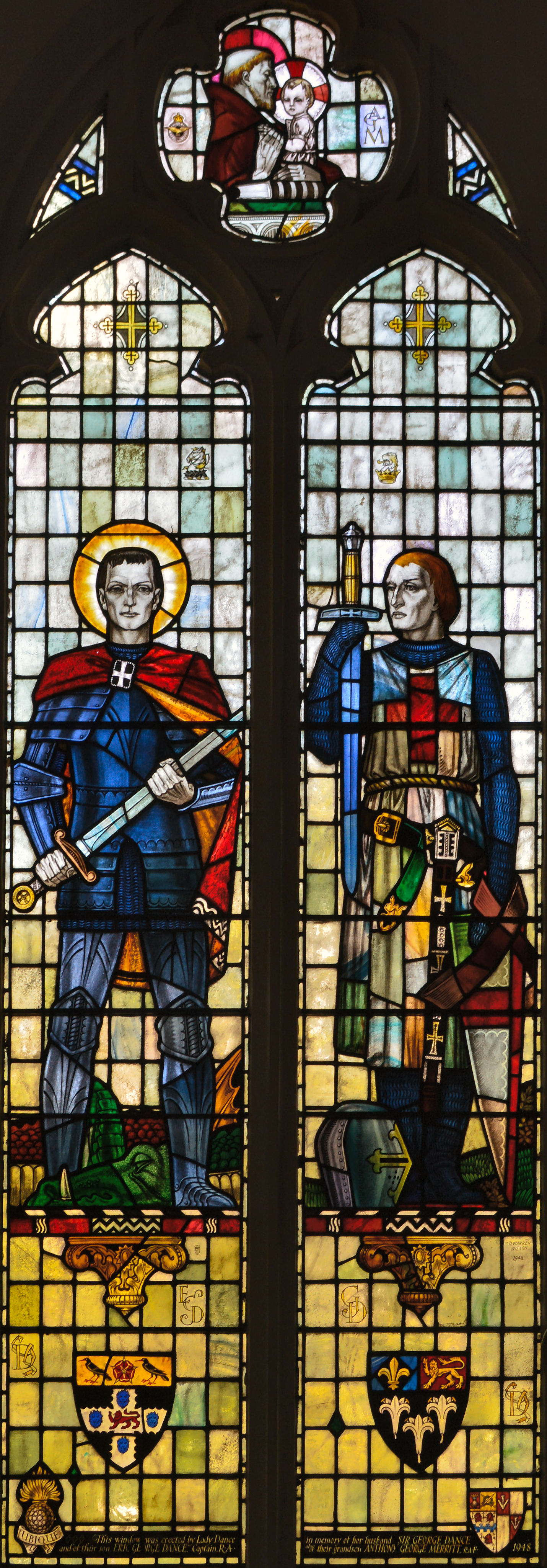 St Andrew's Church, Ham. Stained Glass window commemorating Sir George Dance. Sir George Dance was a dramatist and theatrical manager. 1857-1932. "This window was erected by Lady Dance in memory of her husband Sir George Dance. and of their son Erik George Dance Captain R.A. Also of their grandson Anthony George Merritt R.A.F." St. Michael & St. George, by Harry Warren Wilson (1948)